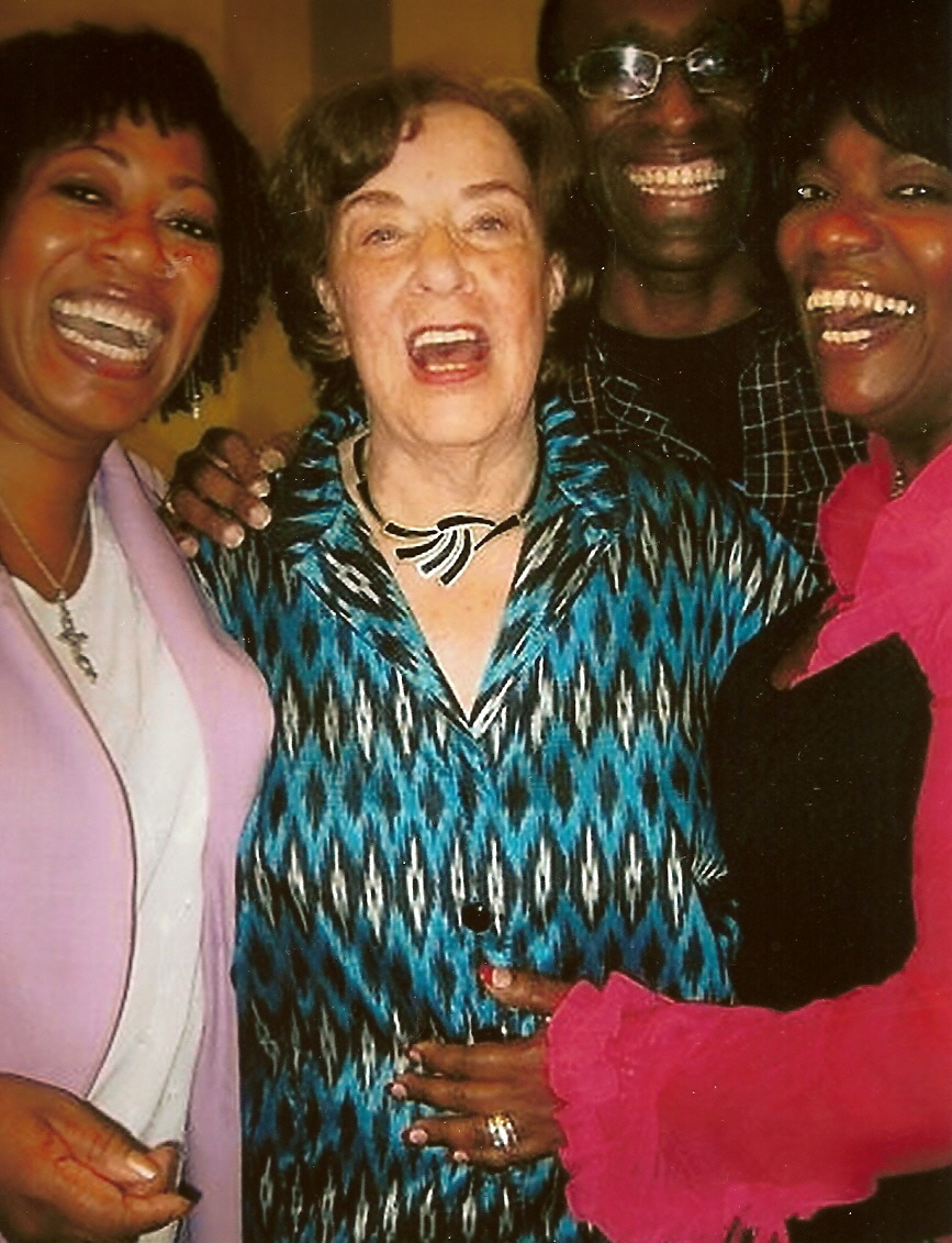 From left to right: jazz singer Denise Jannah, historian Silvia de Groot, Jazz musician Ronald Snijders and actress Gerda Havertong. Picture taken in Amsterdam at the occasion of the 90th birthday of Mrs Silvia de Groot.